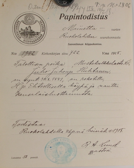 Finnish extract from the parish register.